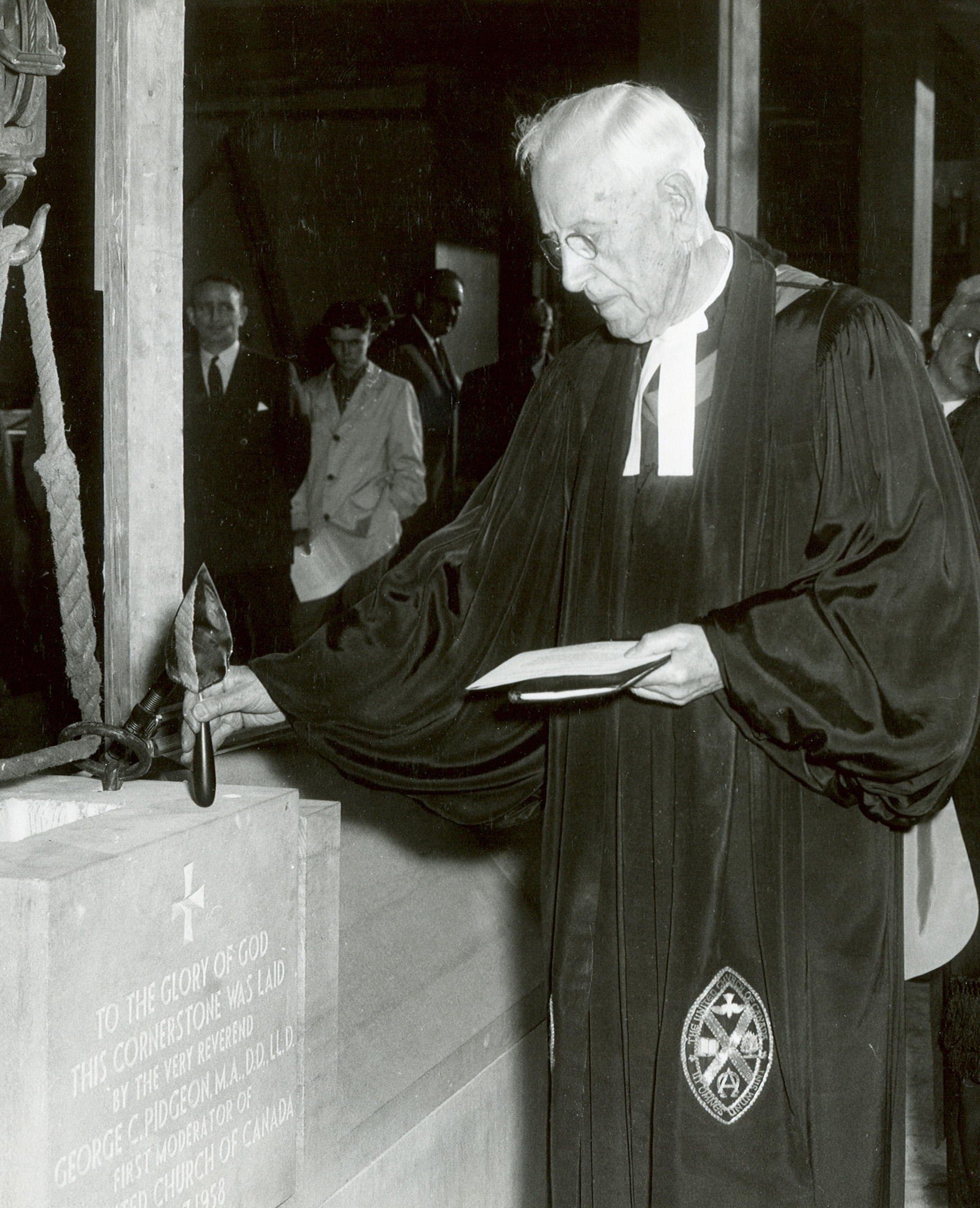 The Very Reverend George C. Pidgeon, first Moderator of The United Church of Canada, dedicates the cornerstone of the new Christian Education wing of Royal York Road United Church, Toronto, Ontario, Canada, April 7, 1958.